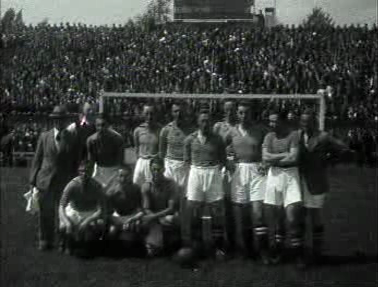 The final of the football championship of the Netherlands in Rotterdam. SHOTS: - teh match Feyenoord - Ajax. Result 0-2; - team captain of Ajax, Wim Andriessen, is carried in triumph off the field; - the Ajax team.